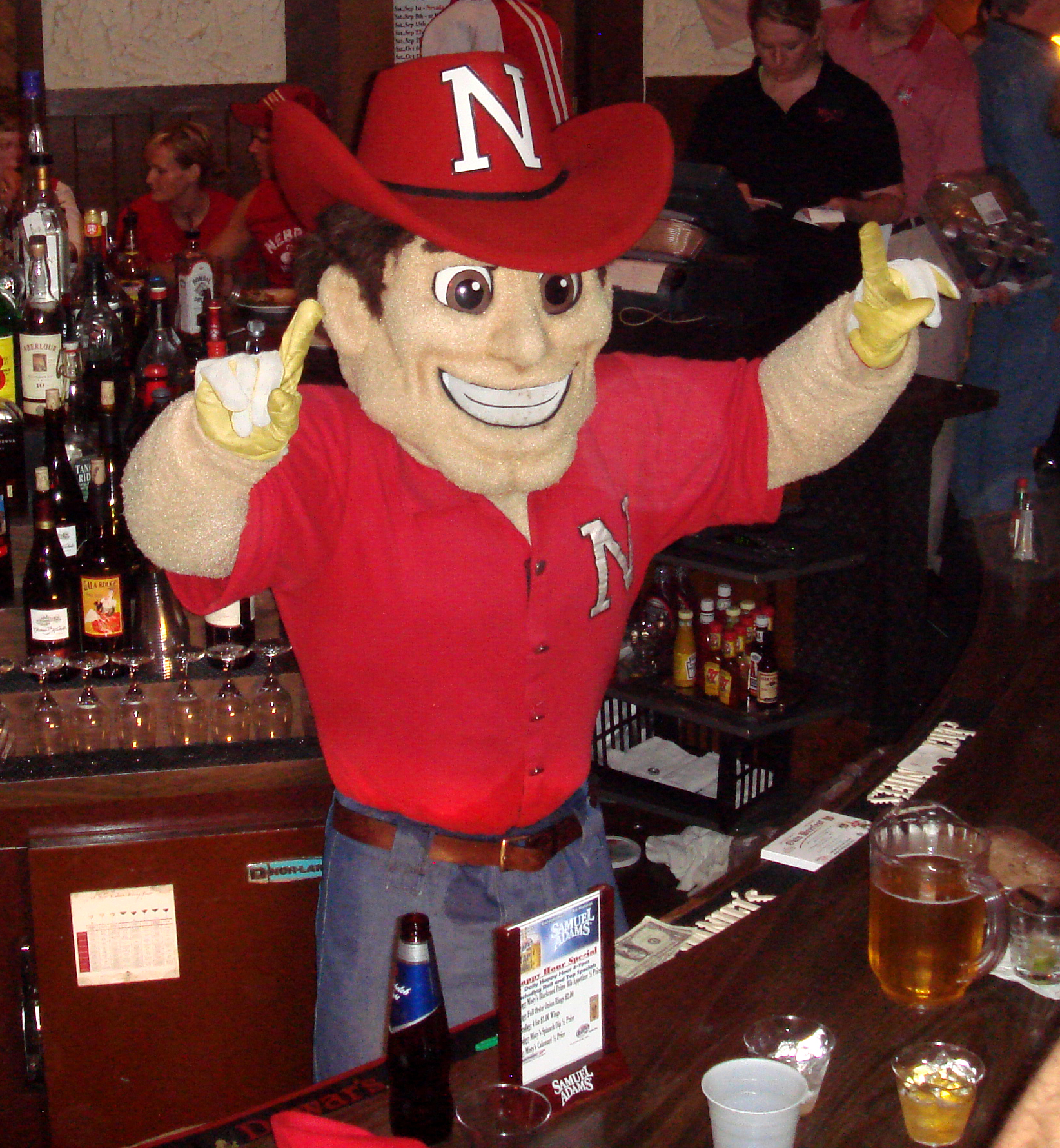 Herbie Husker, the Nebraska Cornhuskers mascot entertaining fans at Misty's Restaurant & Lounge, a Nebraska tradition (along with band and cheerleaders) on Friday nights before football games.